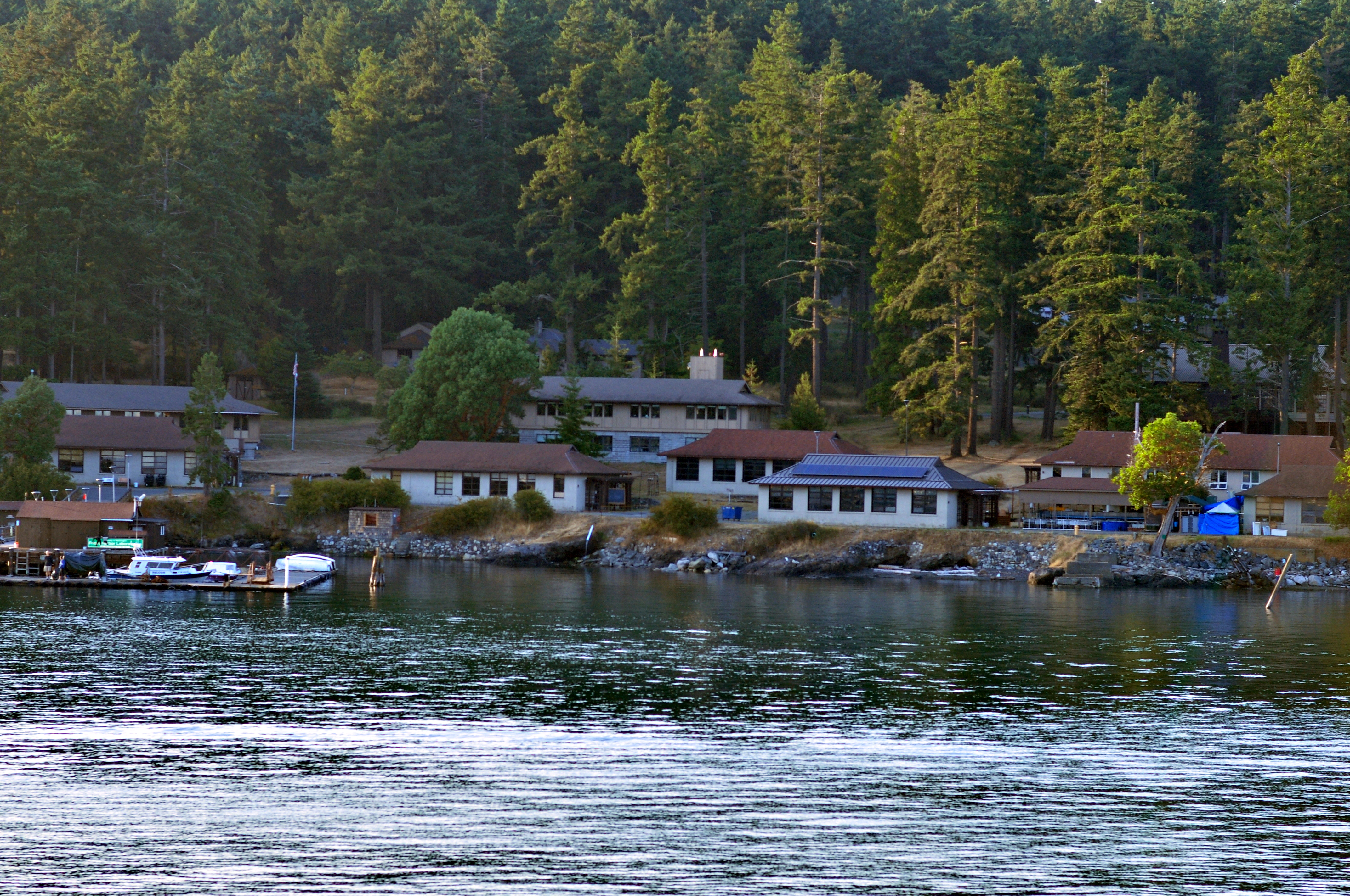 University of Washington Friday Harbor Laboratories, Friday Harbor, San Juan Island, Washington, U.S., seen from Washington State Ferry.